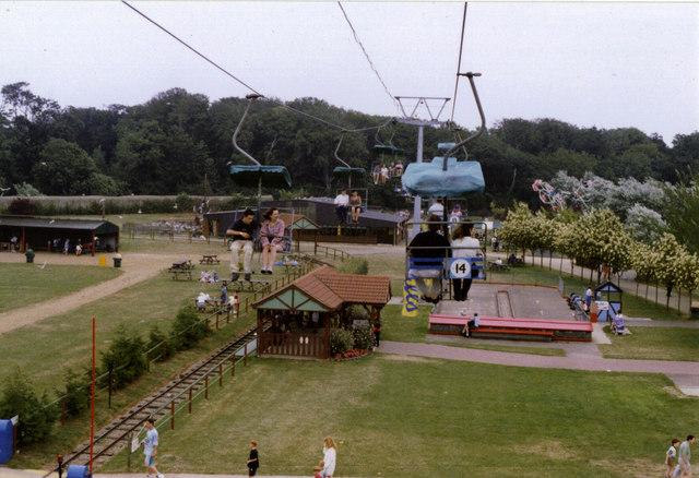 Pleasurewood Hills from the ski lift, 1990s The Pleasurewood Hills amusement park was built on fields between Lowestoft and Corton. Before the Beeching cuts the Great Yarmouth to Lowestoft railway line also passed right across this scene. This photo was taken in the 1990s, before the park was associated with Crinkley Bottom and Mr Blobby.